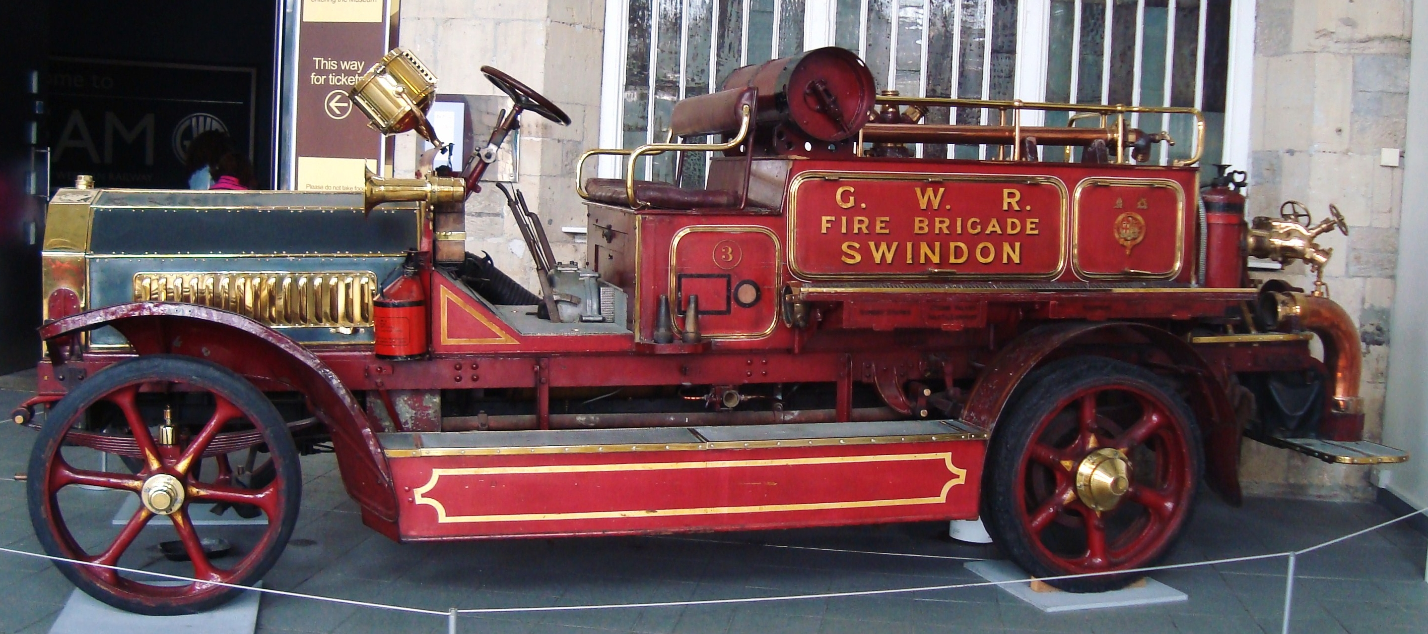 Swindon ... STEAM revisited - G.W.R. FIRE BRIGADE vehicle.